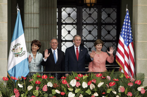 US President George W. Bush and Mrs. Laura Bush and President Oscar Berger of Guatemala, and Mrs. Wendy Widmann de Berger wave to the audience Monday, March 12, 2007, during the arrival ceremonies at the Palacio Nacional de la Cultura in Guatemala City.